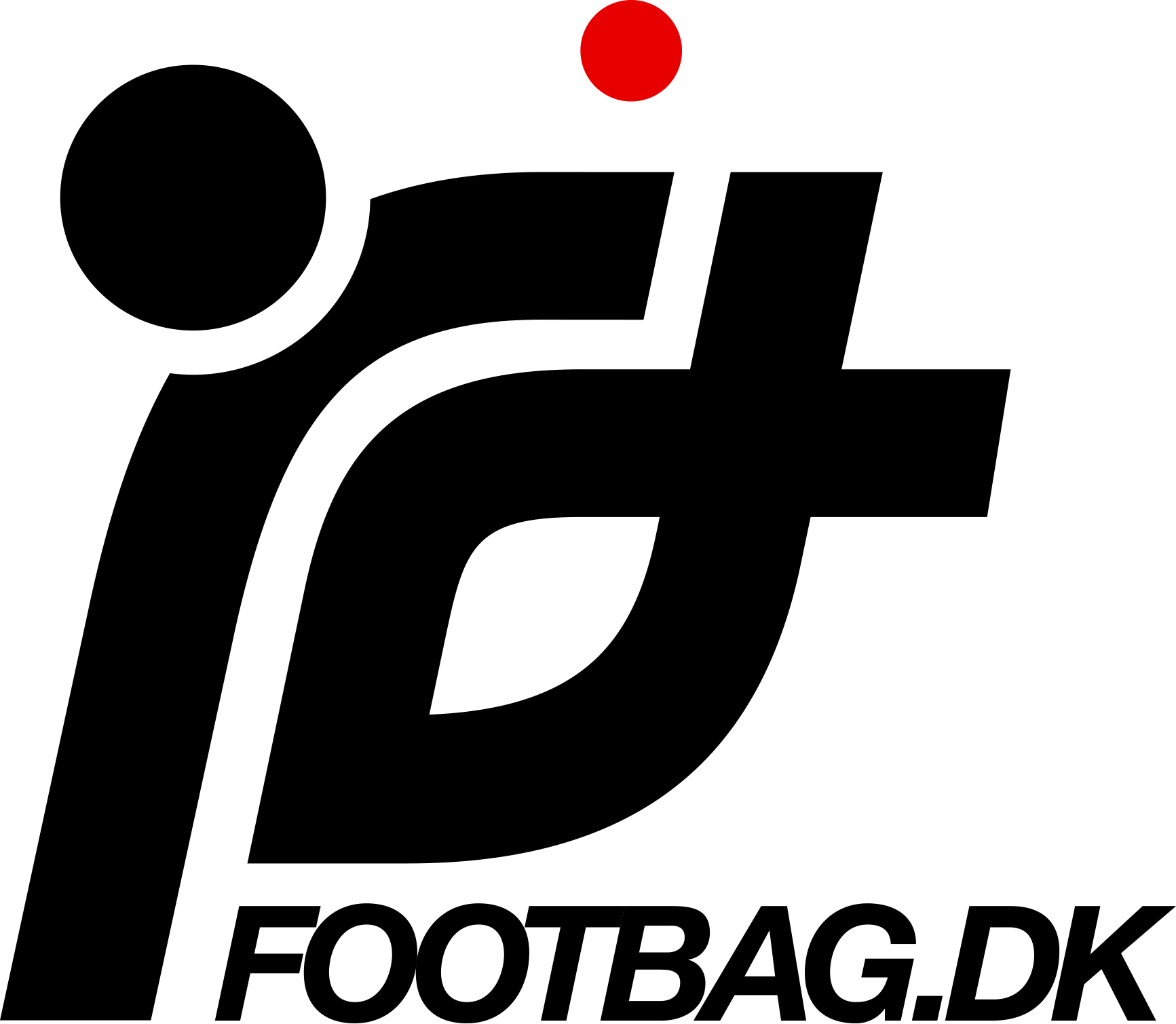 Logo of FootbagDenmark - The union of Danish footbagers